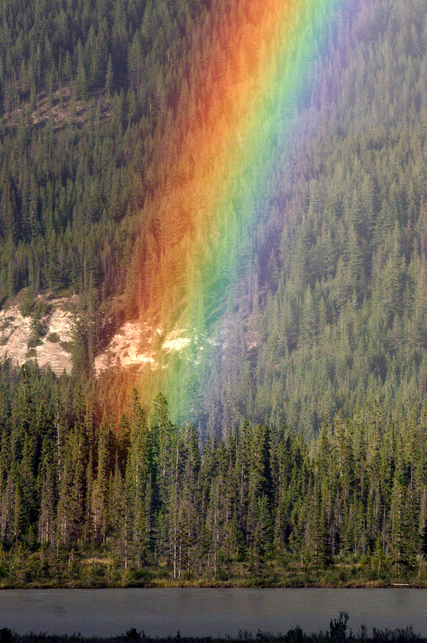 This photo shows the place where the rainbow rises (the end of a rainbow), many mythologies were associated with such places.